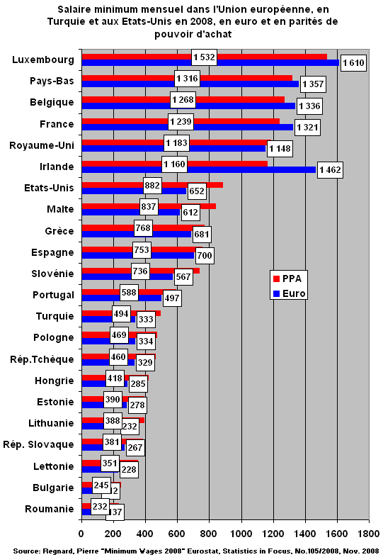 Monthly minimum wages in EU Member States, Turkey and the USA in 2008, in national euros and purchasing power standards